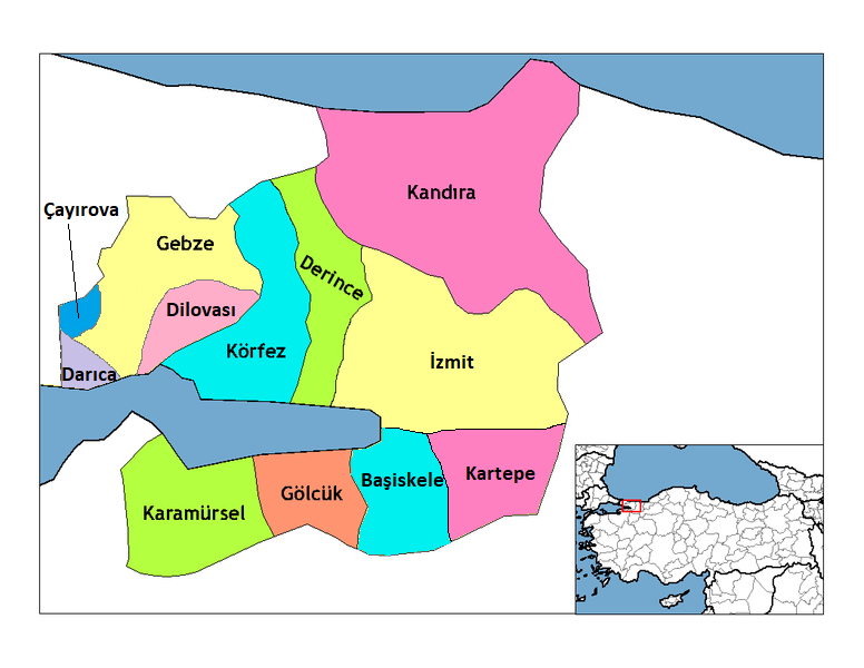 Map of the districts of Kocaeli province in Turkey. Created by Rarelibra 22:01, 1 December 2006 (UTC) for public domain use, using MapInfo Professional v8.5 and various mapping resources. Edited by One Homo Sapiens Corrected text where İ,Ş,ı,ğ,or ş occurs in name. Source: [statoids-com]. Increased font size and enhanced color differences among adjacent districts.